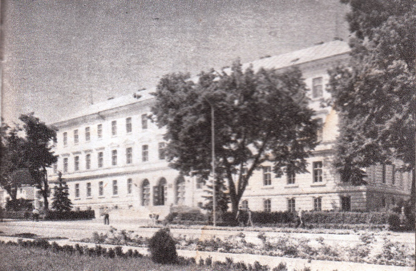 The Palace of Justice in Suceava, during the communist period. Between 1968-2002, the building served as Suceava City Hall.